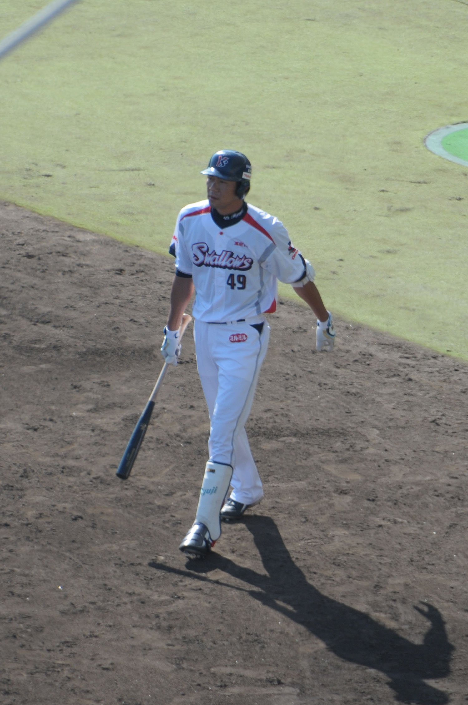 Ryuji Miyade, outfielder of the Tokyo Yakult Swallows, at Akita Prefectural Baseball Stadium.